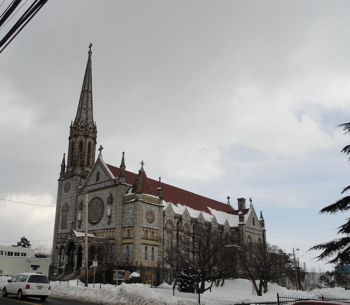 St. Patrick Church, Bridgeport, CT, Dwyer and McMahon (1905)